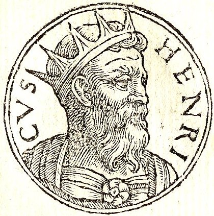 Henri I was the second emperor of the Latin Empire of Constantinople.